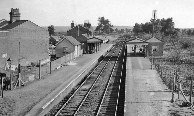 Beaulieu Road Station. View southward, towards Bournemouth; London - Southampton - Bournemouth - Weymouth main line. This station is in the heart of the New Forest, nowhere near anywhere, being over 3 miles from Beaulieu and about the same distance the other way from Lyndhurst, but has survived well.